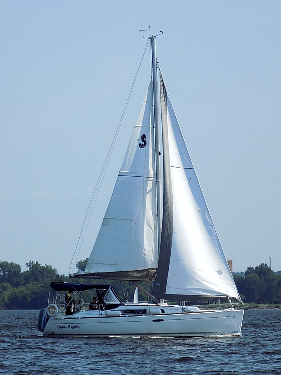 A Beneteau 31 sailboat named Sugar Magnolia.